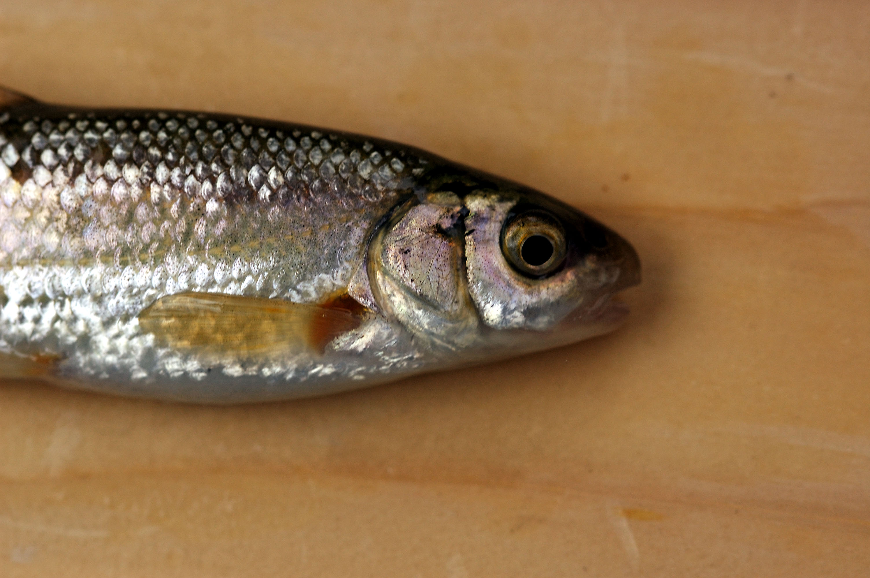 Telestes muticellus collected in central Italy (Tiber drainage). Photo by Andrea Tiberi.